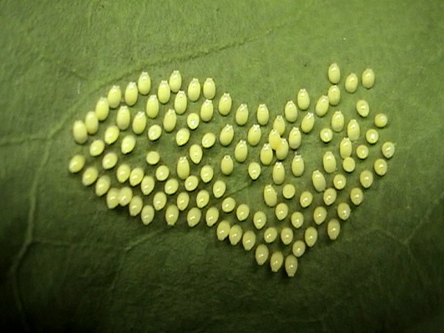 Eggs of Common Jezebel (Delias eucharis) laid in large batch